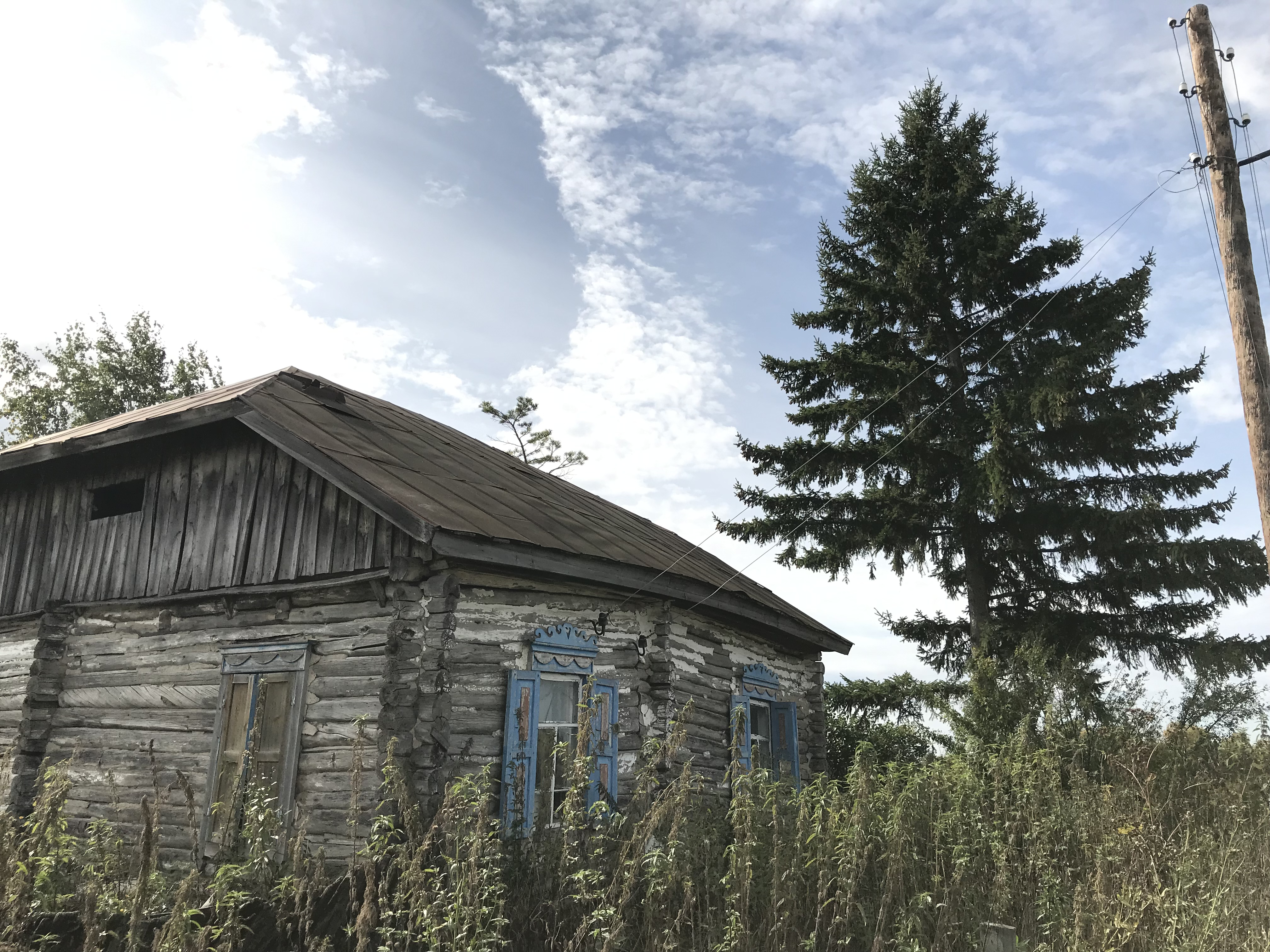 Oravka. House. Street view.